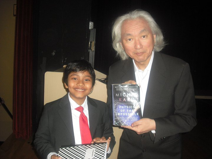 Michio Kaku represented his books physics of the impossible with a Boy.